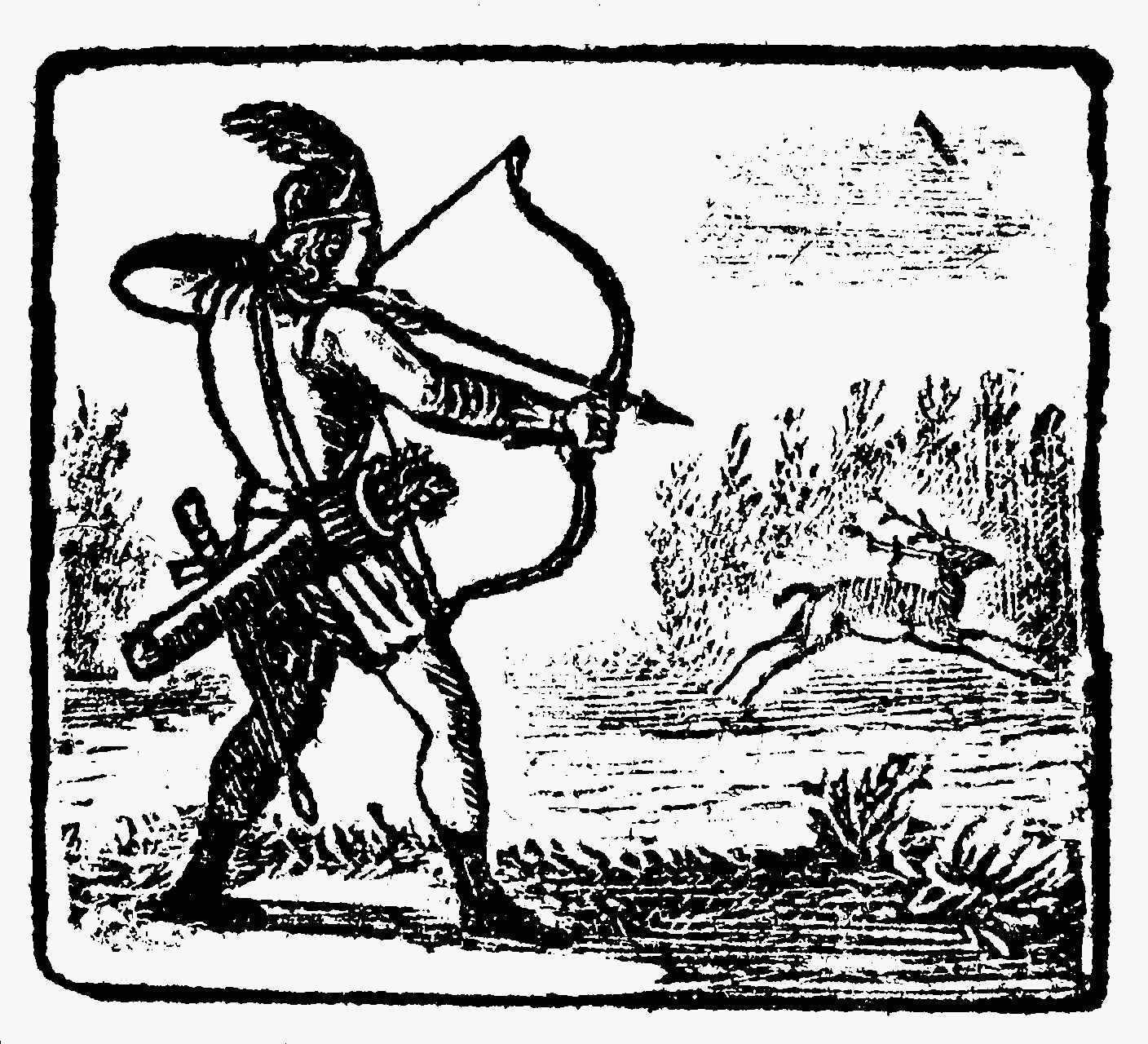 Illustration of legendary English outlaw Adam Bell from "The History of Adam Bell, Clim of the Clough, and William of Cloudeslie"